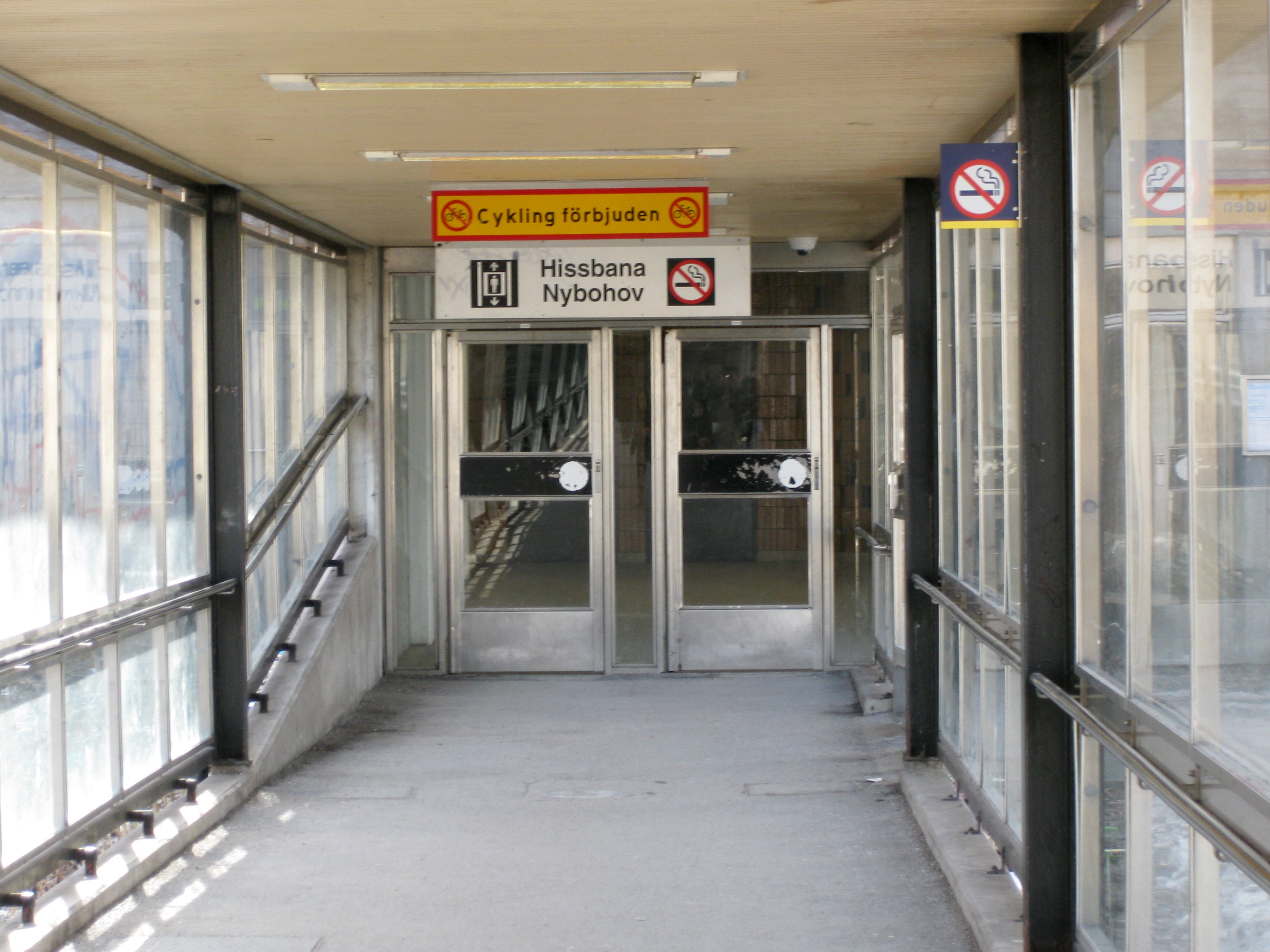 Nybohovshissen, funicular in Liljeholmen, lower station.